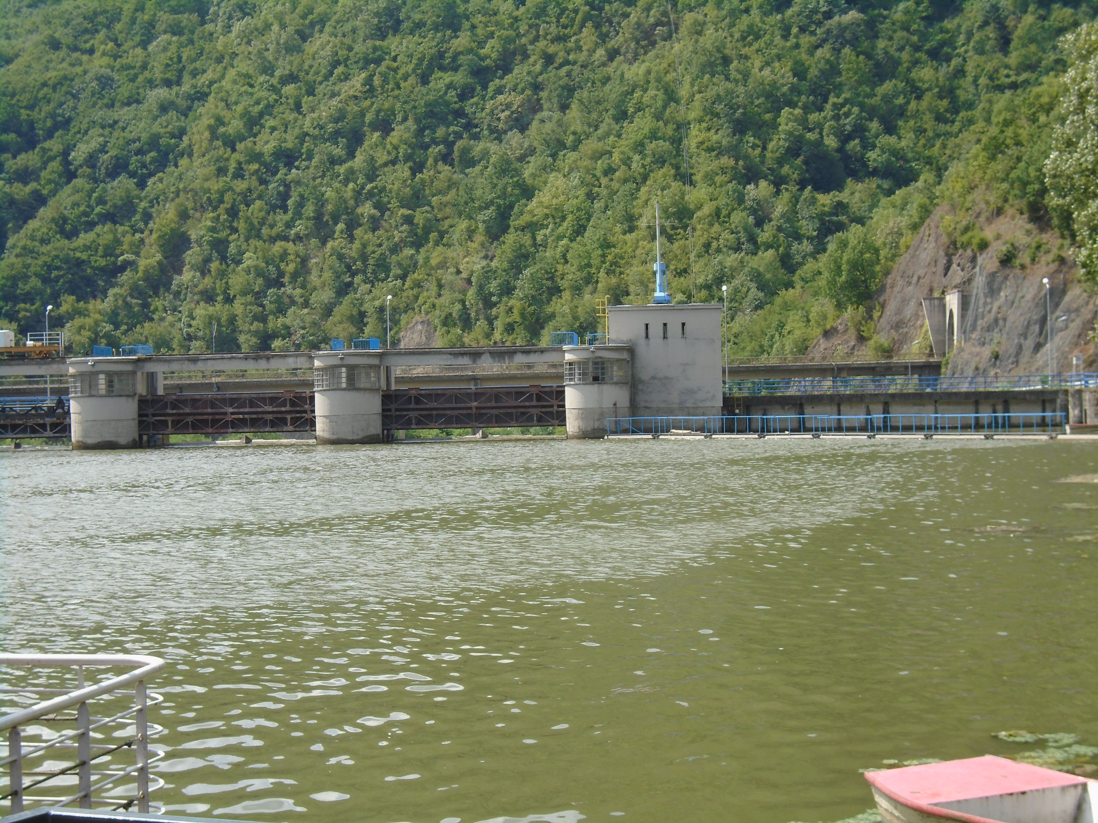 Lake Medjuvršje, Serbia, 2017.